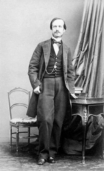 Adolphe Eugène Disderi (1819-1890), The Italian statesman Urbano Rattazzi (1808-1873).